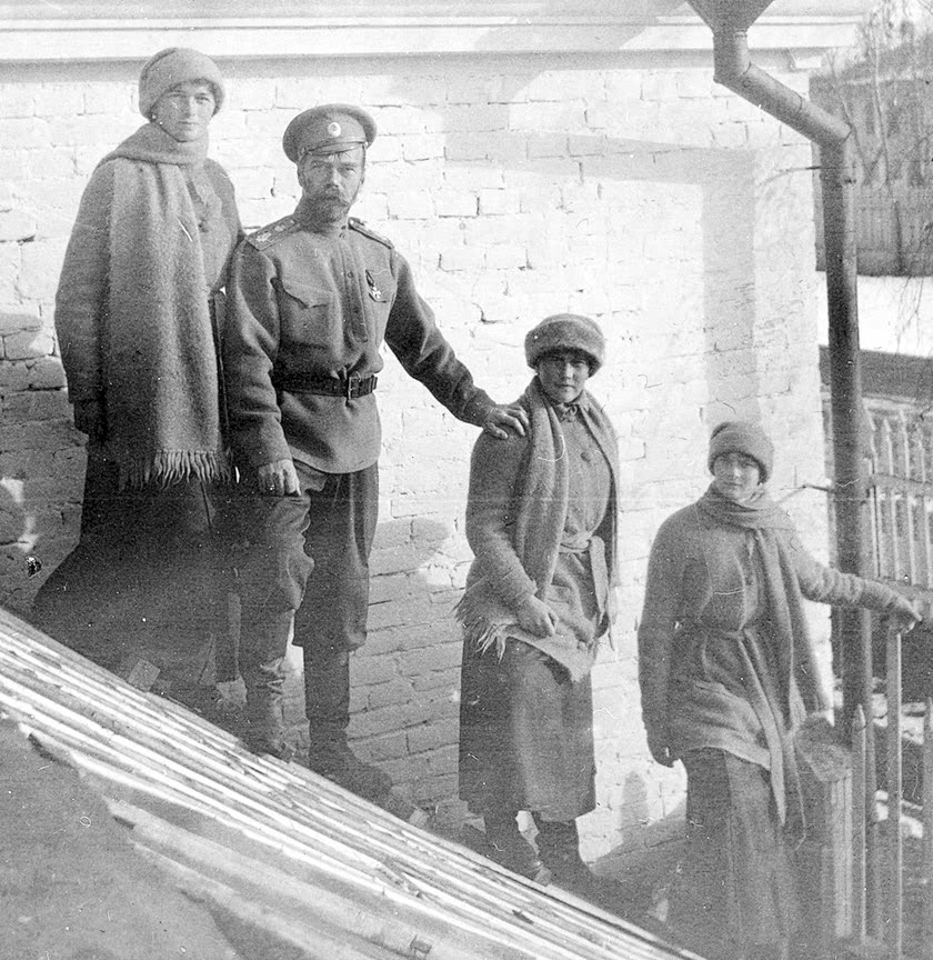 This photo of Tsar Nicholas II and his daughters Olga, Anastasia and Tatiana in captivity at Tobolsk in the winter of 1917-1918 is from the Beinecke Library and can be used with attribution. The correct credit line is Romanov Collection, General Collection, Beinecke Rare Book and Manuscript Library, Yale University.